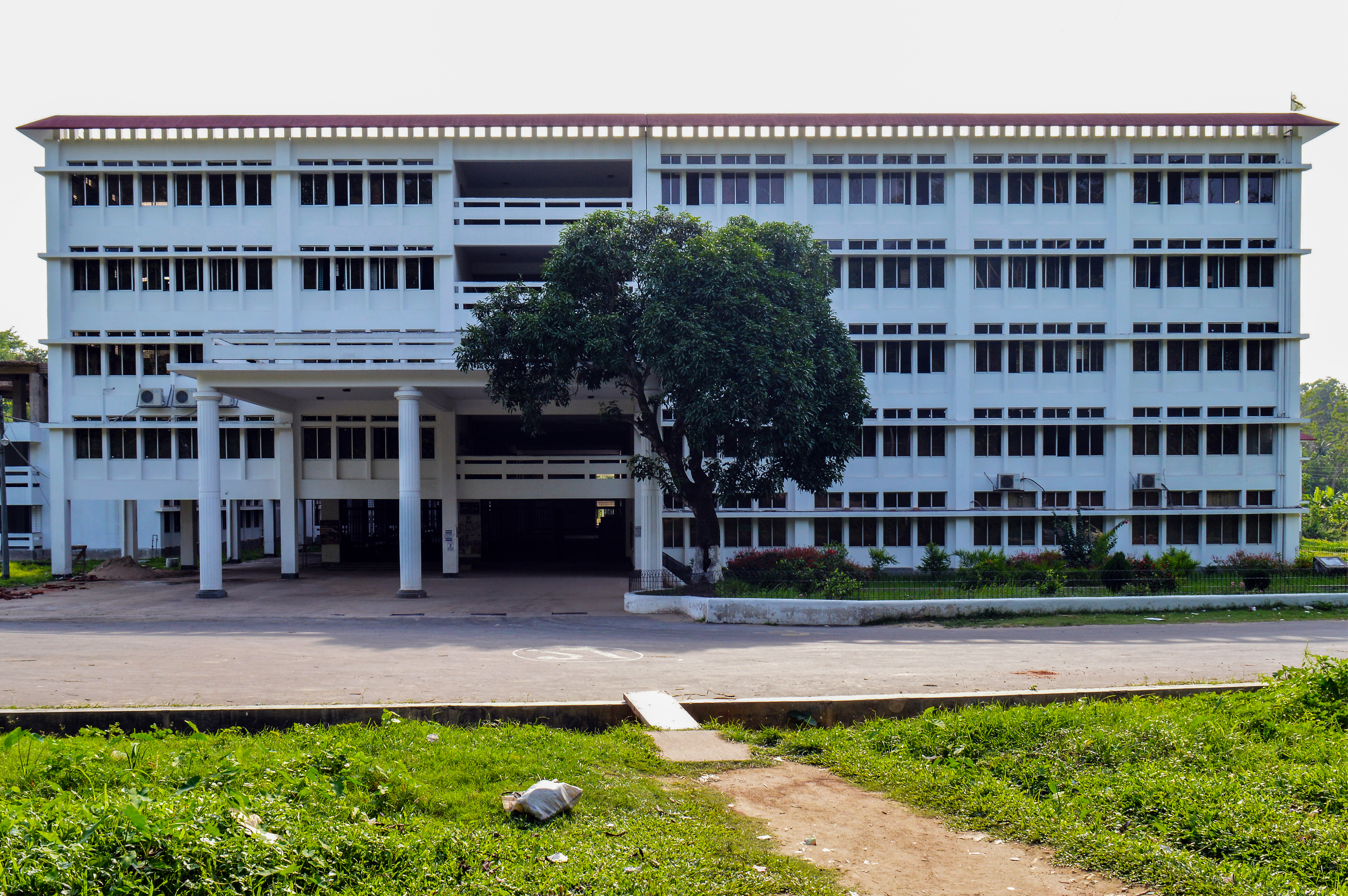 Faculty of Biological Science (East-West view), University of Chittagong